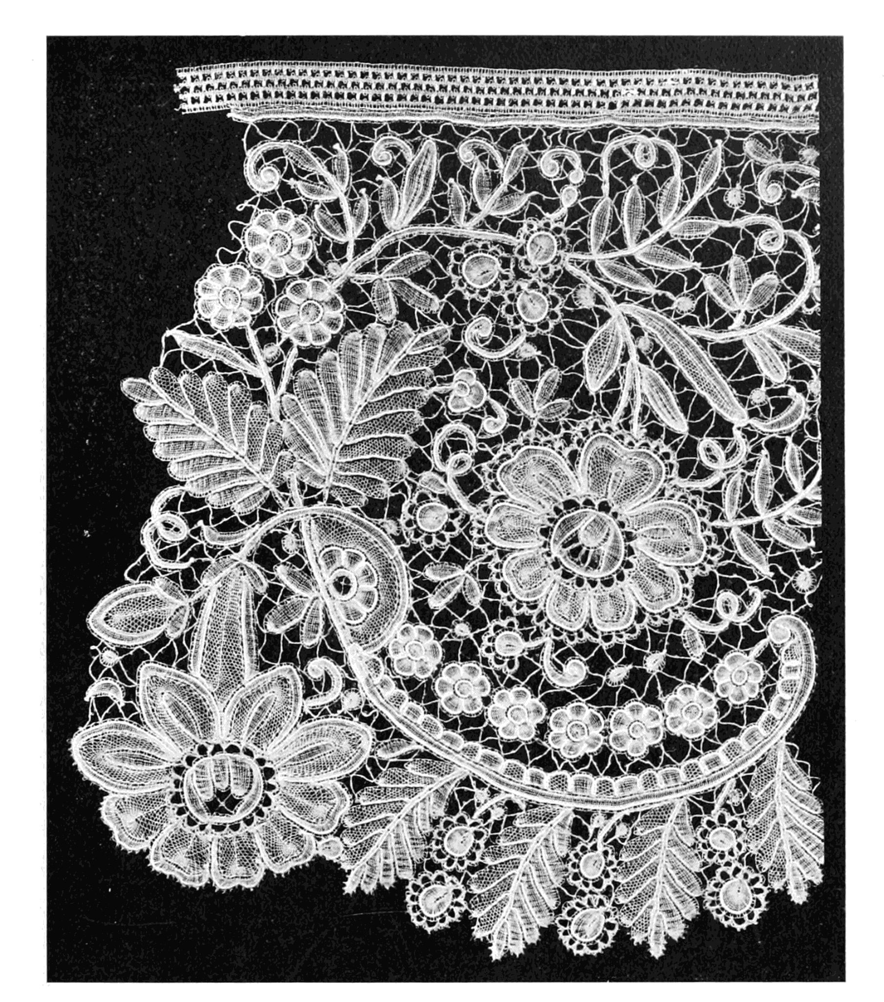 "Real Duchesse."